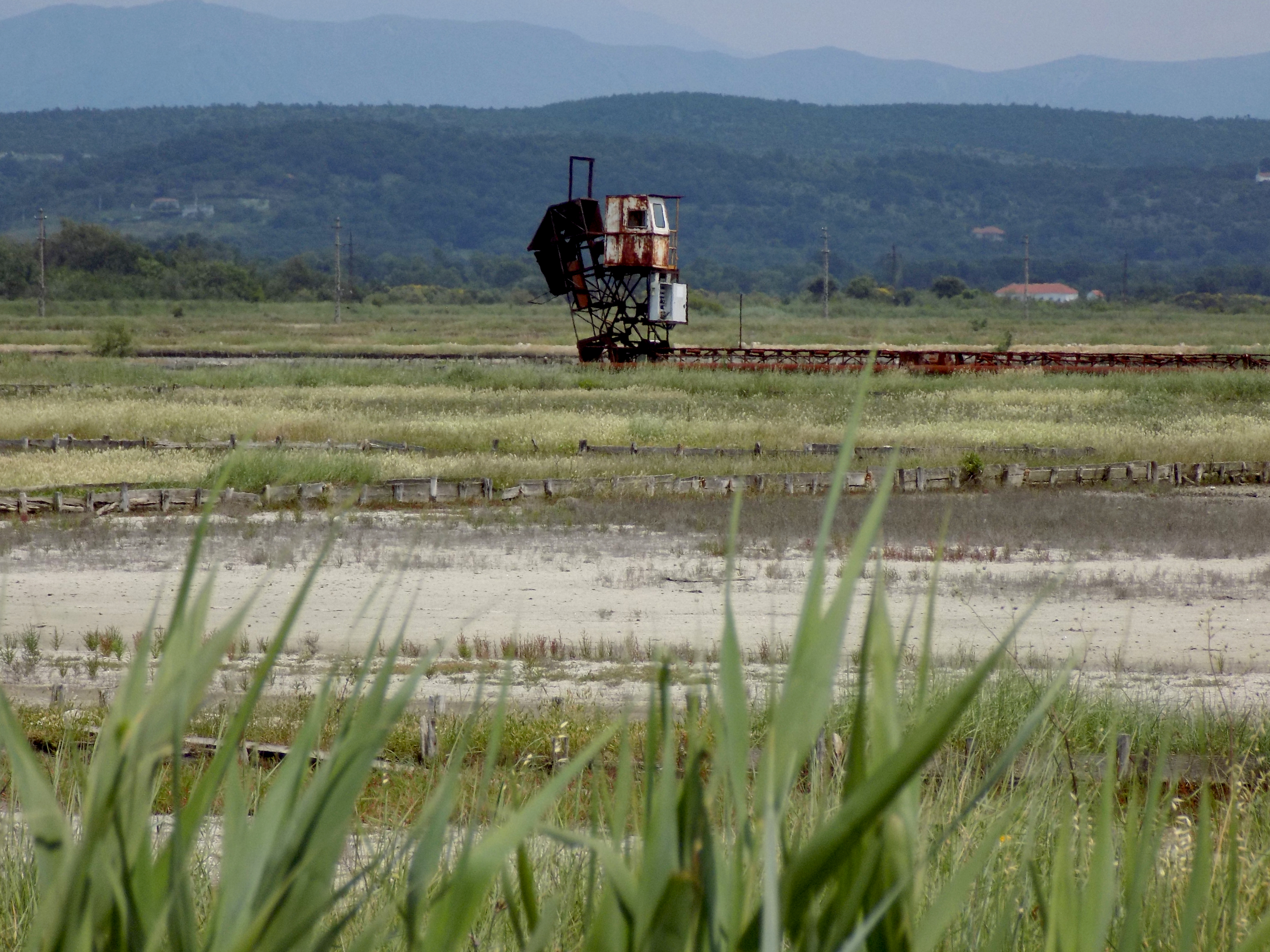 Ulcinj Salinas, important bird area - old machines of the former salt works